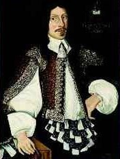 Portrait of Gustaf Persson Natt och Dag